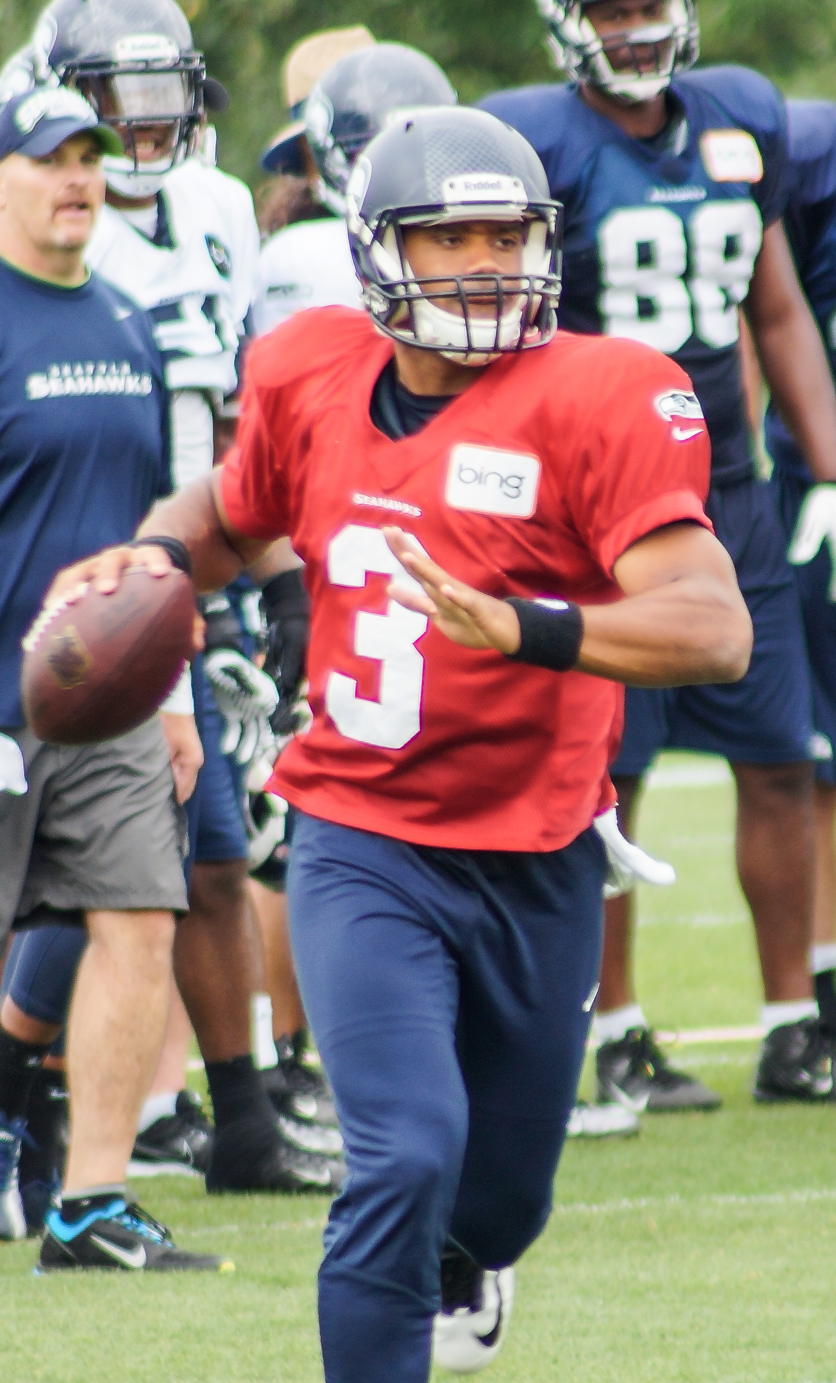 Russell Wilson in 2013 training camp.